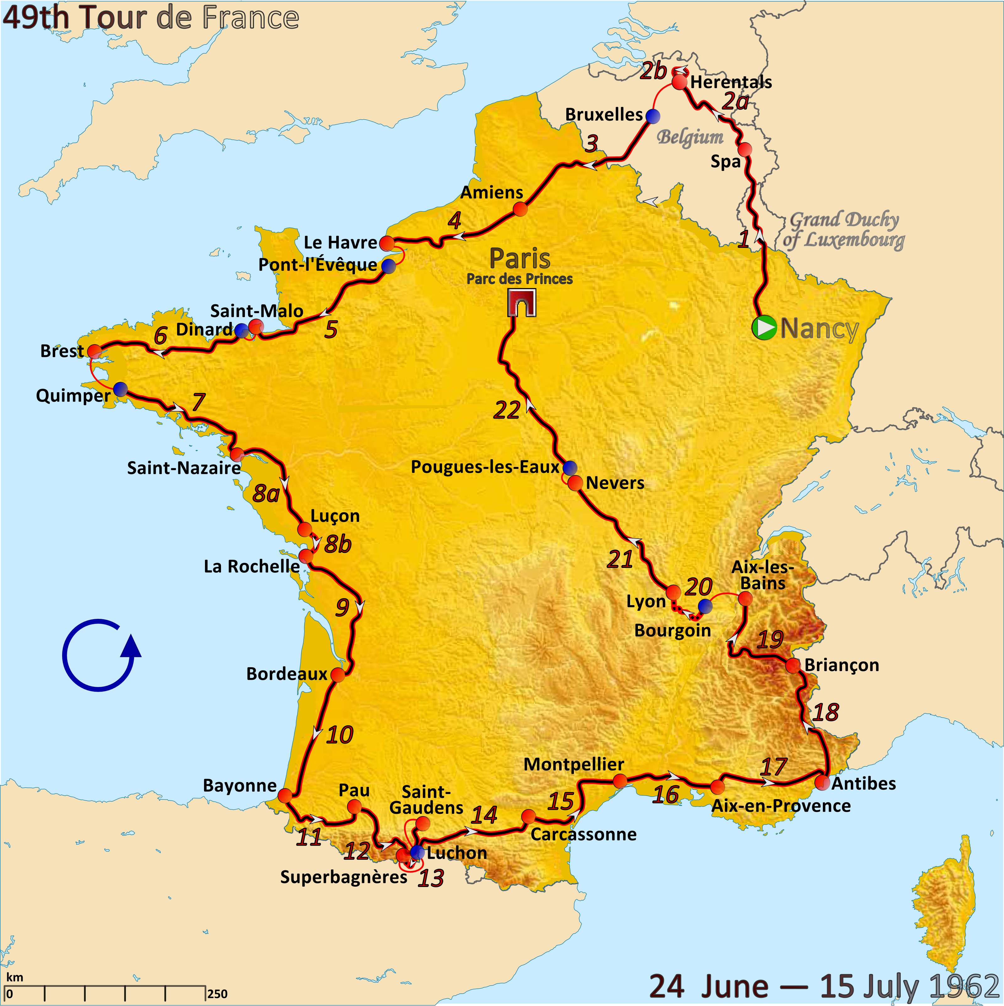 Route of the 1962 Tour de France created in Inkscape using accurate stage maps from touratlas.nl